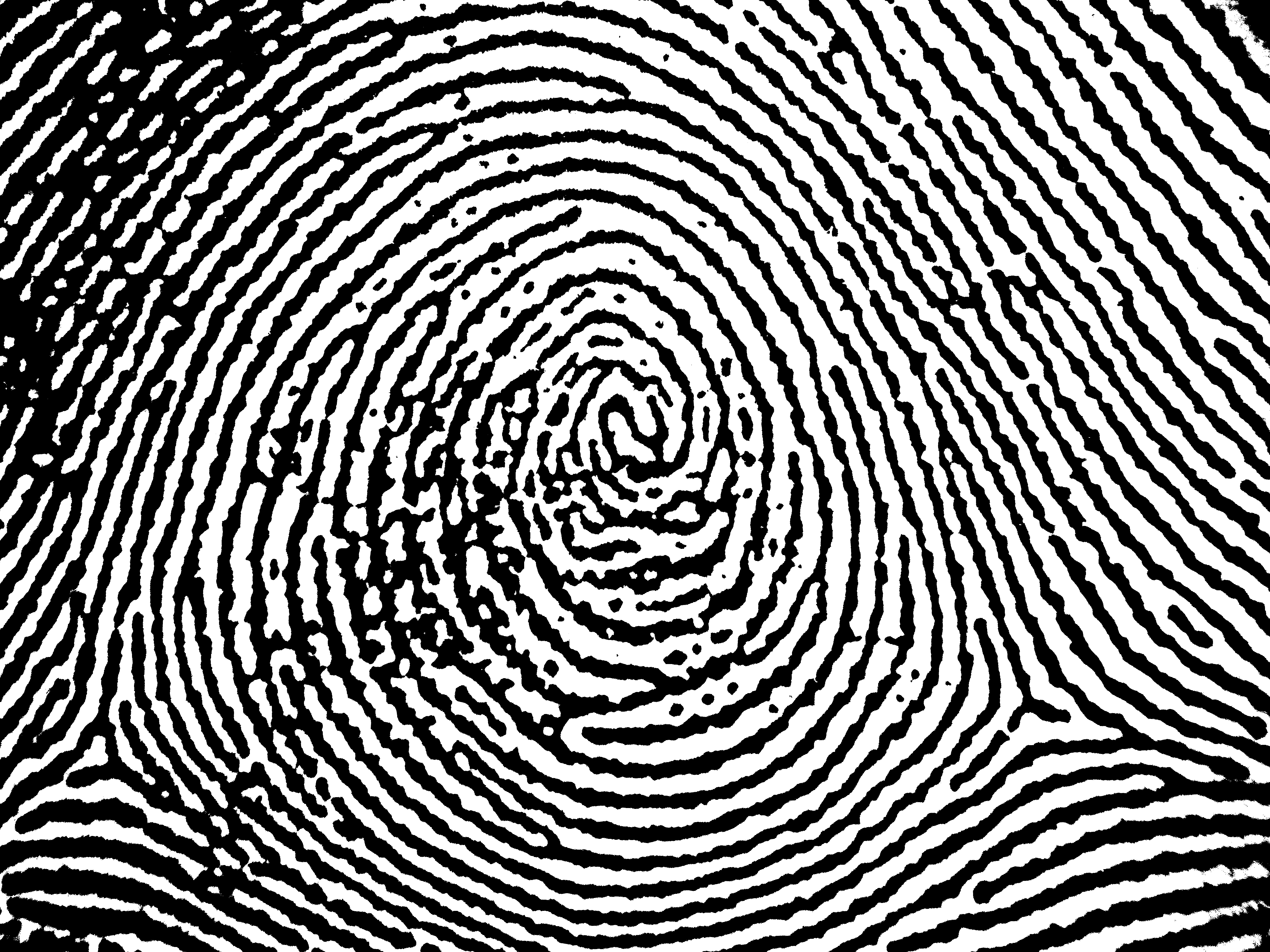 Plain whorl